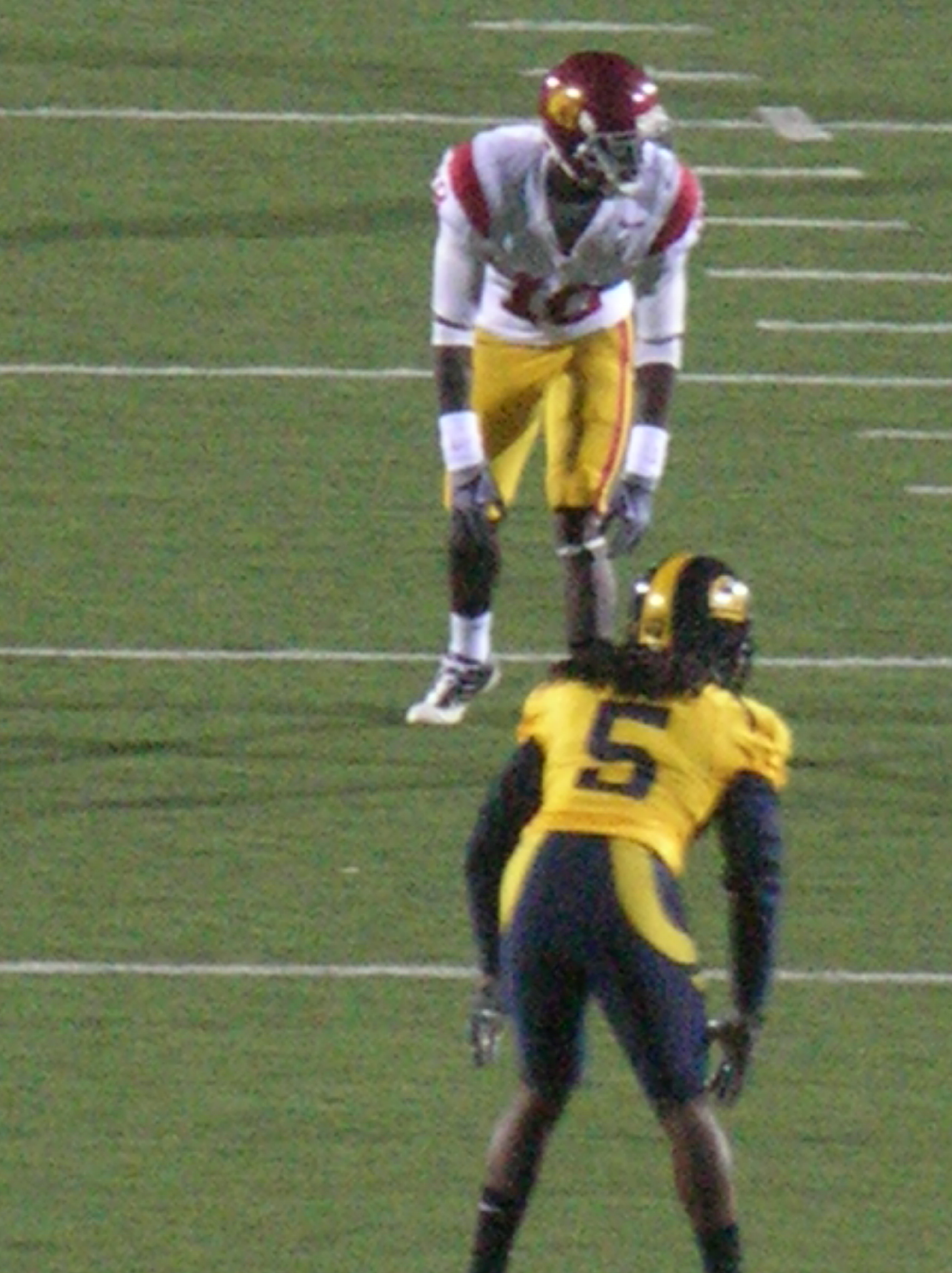 Cal cornerback Syd'Quan Thompson (#5) covers USC wide receiver Damian Williams (#18) during a home game against the USC Trojans. The Trojans won 30-3.